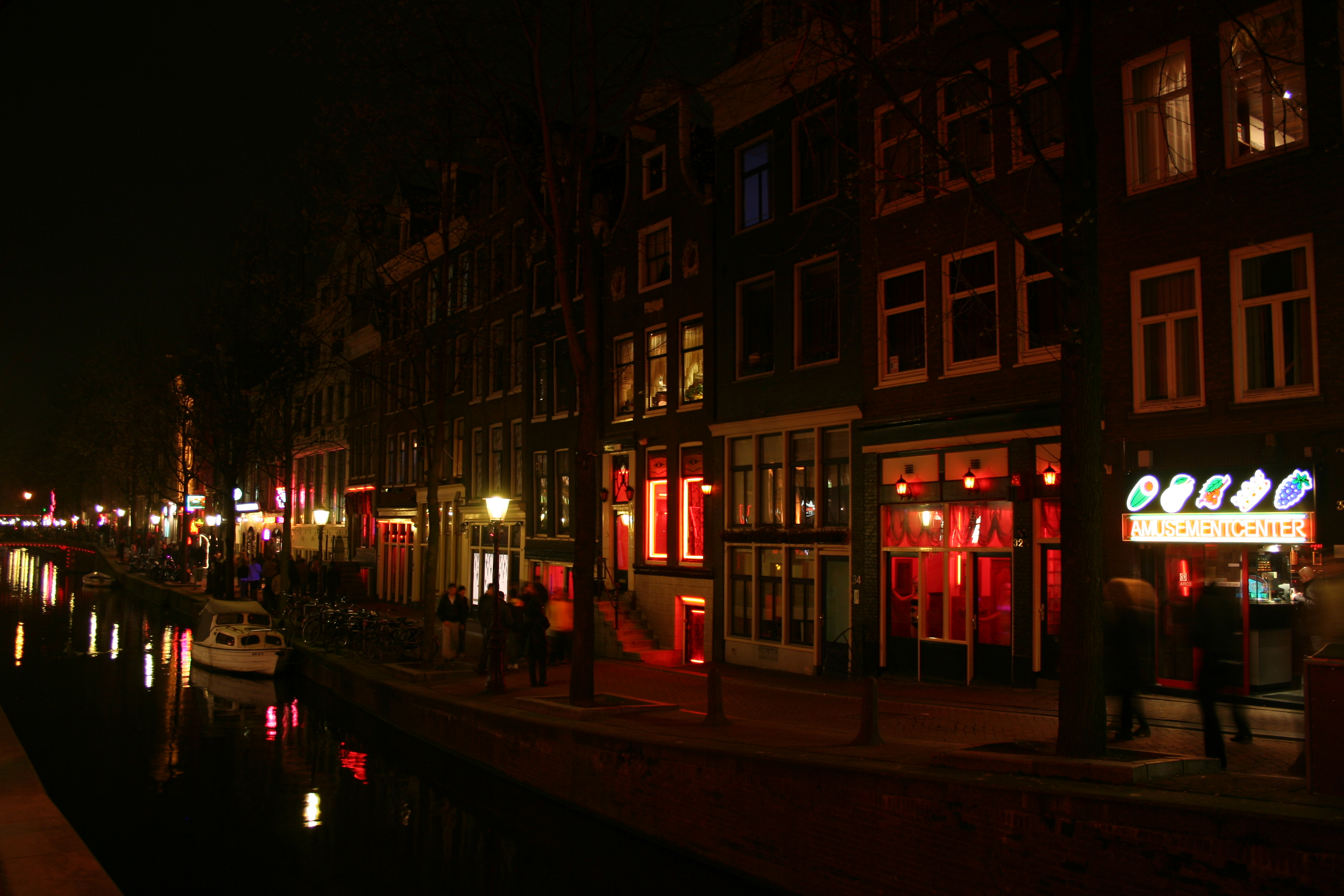 A photograph taken of the Red Light District in Amsterdam. It is also known as the "Wallen".